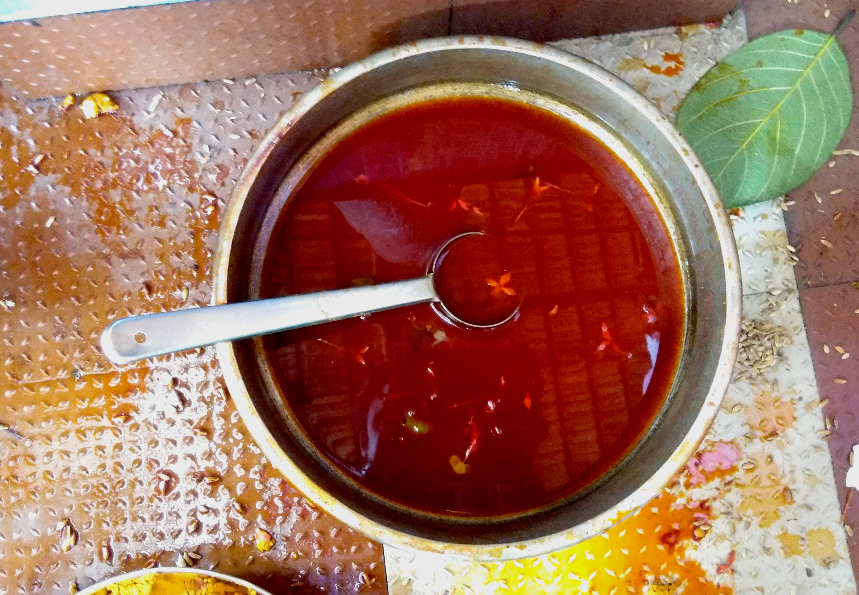 Chottanikkara Keezhkavu Temple Guruthy Pooja Water